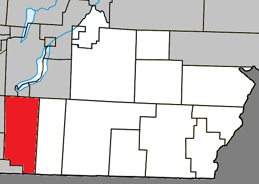 Location of Stanstead-Est, Quebec within Coaticook Regional County Municipality.